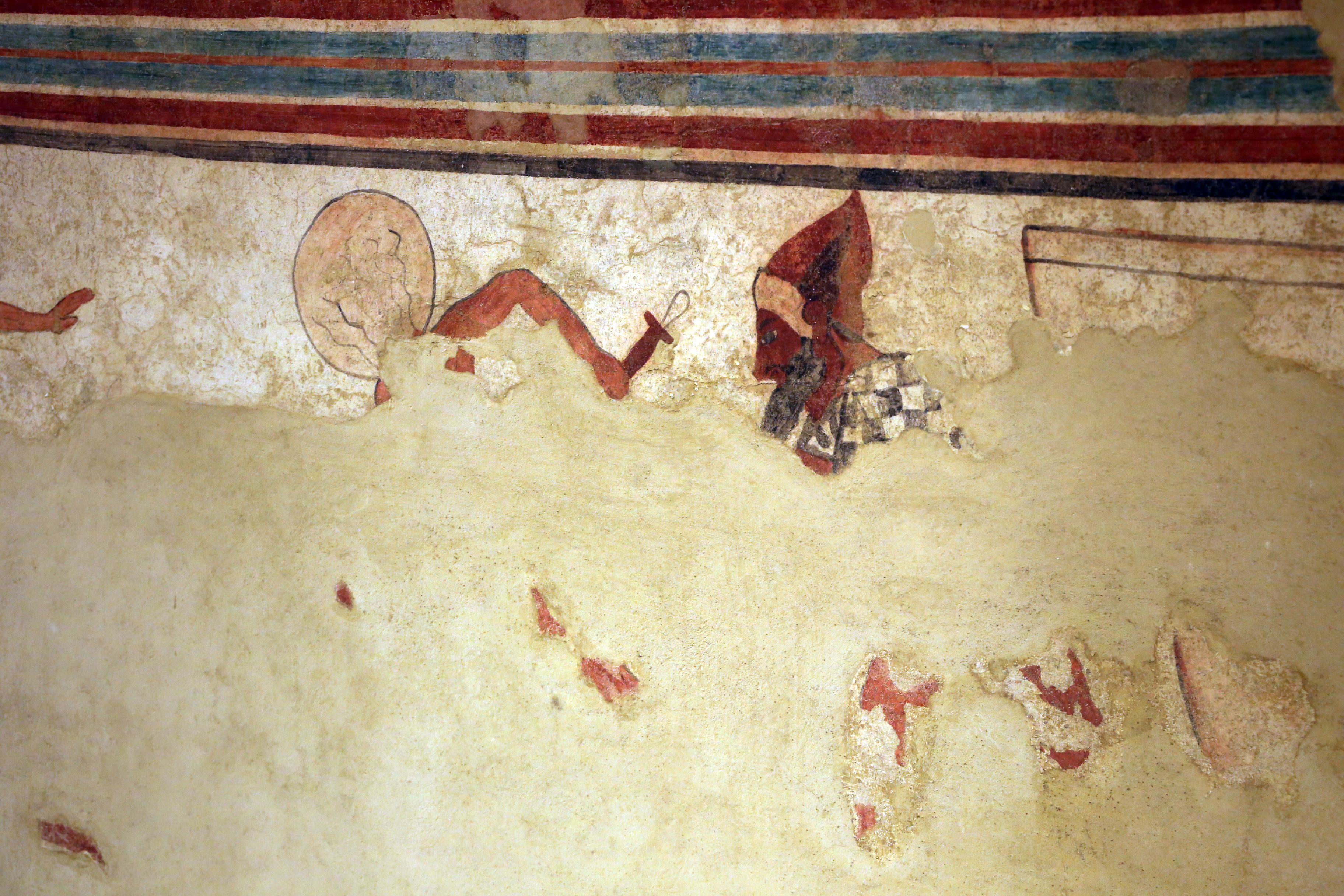 Etruscan antiquities the Museo archeologico nazionale (Tarquinia)